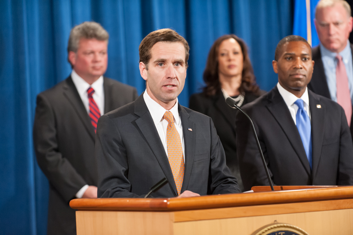 Delaware Attorney General Beau Biden at a Justice Department press conferences.